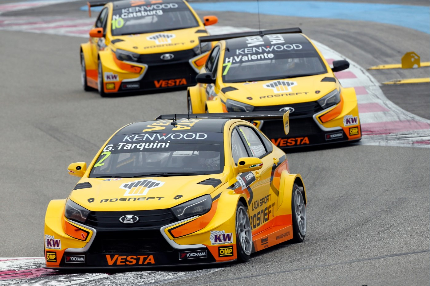 Lada Vesta WTCC (Lada Sport), Paul Ricard, 2016